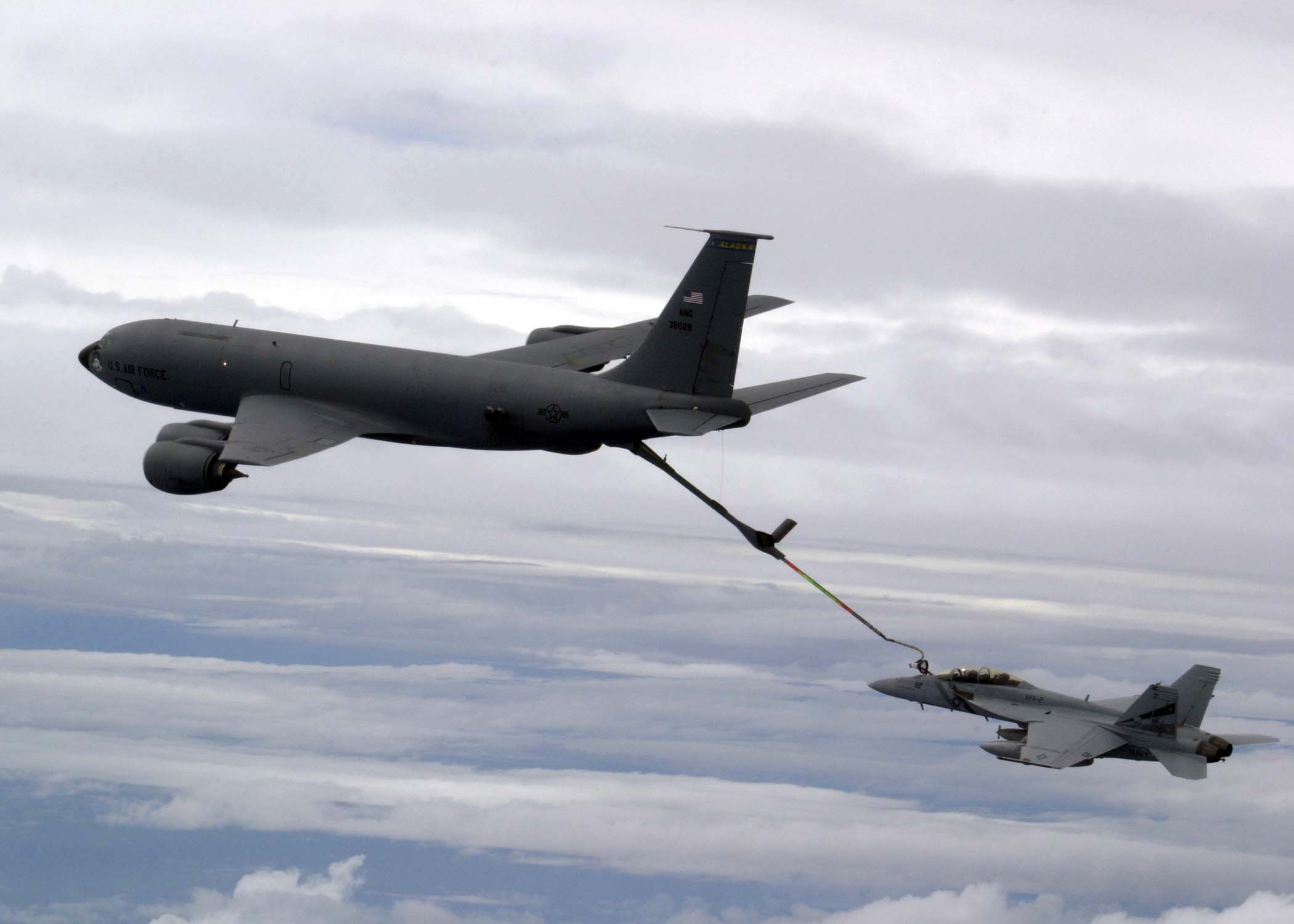 Pacific Ocean (Nov. 4, 2004) - An F/A-18F Super Hornet assigned to the “Bounty Hunters” of Strike Fighter Squadron Two (VFA-2), conducts in-flight refueling from an U.S. Air Force KC-135R Stratotanker assigned to the Alaska Air National Guard. VFA-2 is assigned to Carrier Air Wing Two (CVW-2), currently embarked aboard the Nimitz-class aircraft carrier USS Abraham Lincoln (CVN 72). Lincoln is on a scheduled deployment to the Western Pacific Ocean. U.S. Navy photo by Lt. Perry Solomon (RELEASED)